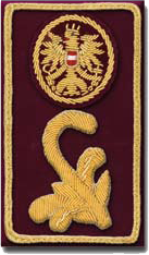 This image is in the public domain according to Austrian copyright law because it is part of a law, ordinance or official decree issued by an Austrian federal or state authority, or because it is of predominantly official use. (§7 UrhG) To uploader: Please provide where the image was first published and who created it. Hofrat (rechtskundiger Dienst der Bundespolizei)